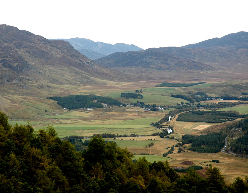 The village of Laggan, Badenoch. Photo taken from Black Hill hilltop.